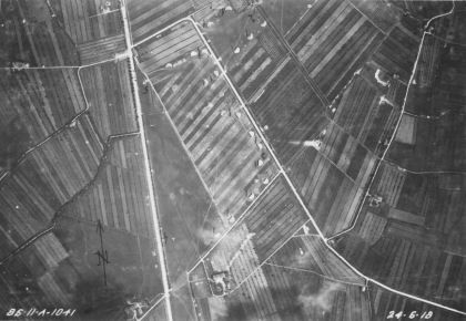 the airfield of san Giacolo di Veglia seat of Jagdstaffel 31